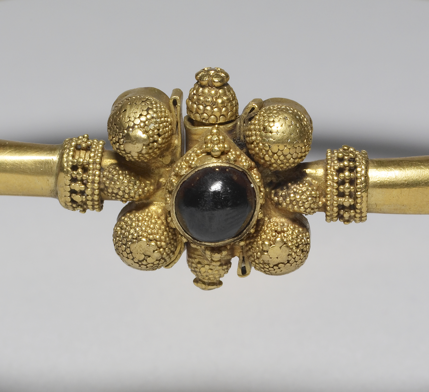 This superb tubular bracelet closes with a clasp decorated with granulation--a hallmark of Hunnish craftsmanship--around a central round garnet. The backs of the hemispheres are decorated with a filigree. While Hunnish women also wore jewelry, the large size of this bracelet suggests it would have been worn by a man, high on the arm.